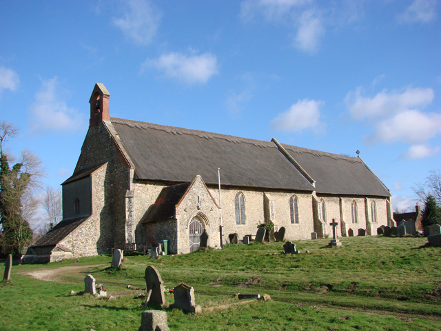 St Peter's parish church, Westleton, Suffolk, seen from the southwest